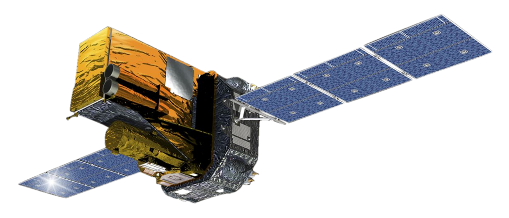 Artist's rendering, from NASA, of the European Space Agency's INTEGRAL spacecraft, in its in-flight configuration. The INTEGRAL mission, short for the "International Gamma-Ray Astrophysics Laboratory", is focused on Gamma-ray astronomy, making use of a medium-sized Gamma-ray space observatory to make observations on astronomical Gamma-ray sources and collect data for study.